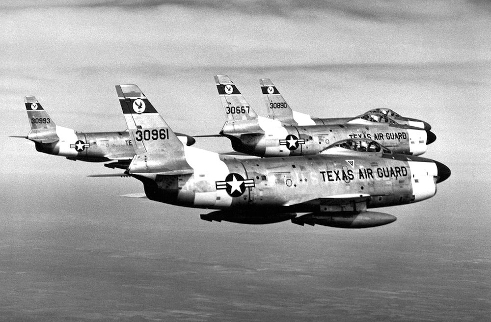 182d Fighter-Interceptor Squadron - F-86L Interceptors, 1959. Identified aircraft: North American F-86D-60-NA Sabre 53-0961 (F-86L) North American F-86D-60-NA Sabre 53-0993 (F-86L) North American F-86D-60-NA Sabre 53-0667 (F-86L) North American F-86D-60-NA Sabre 53-0890 (F-86L)